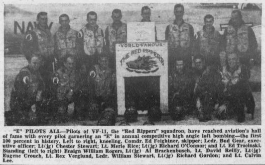 The caption of this photograph published in the USNAS Jax Air News states: "E" Pilots All—Pilots of VF-11, the "Red Rippers" squadron, have reached aviation's hall of fame with every pilot garnering an "E" in annual competitive dive high angle loft bombing—the first 100 percent in history. Left to right, kneeling: Comdr. Ed Feightner, skipper; Lcdr. Bud Gear, executive officer; Lt(jg) Chester Stewart; Lt. Merle Rice; Lt(jg) Richard O'Connor; and Lt. Ed Trzcinski. Standing (left to right) Ensign William Rogers, Lt.(jg) Al Brackenbusch, Lt. David Reilly, Lt.(jg) Eugene Crouch, Lt. Rex Verglund, Lcdr. William Stewart, Lt.(jg) Richard Gordon, and Lt. Calvin Lee.